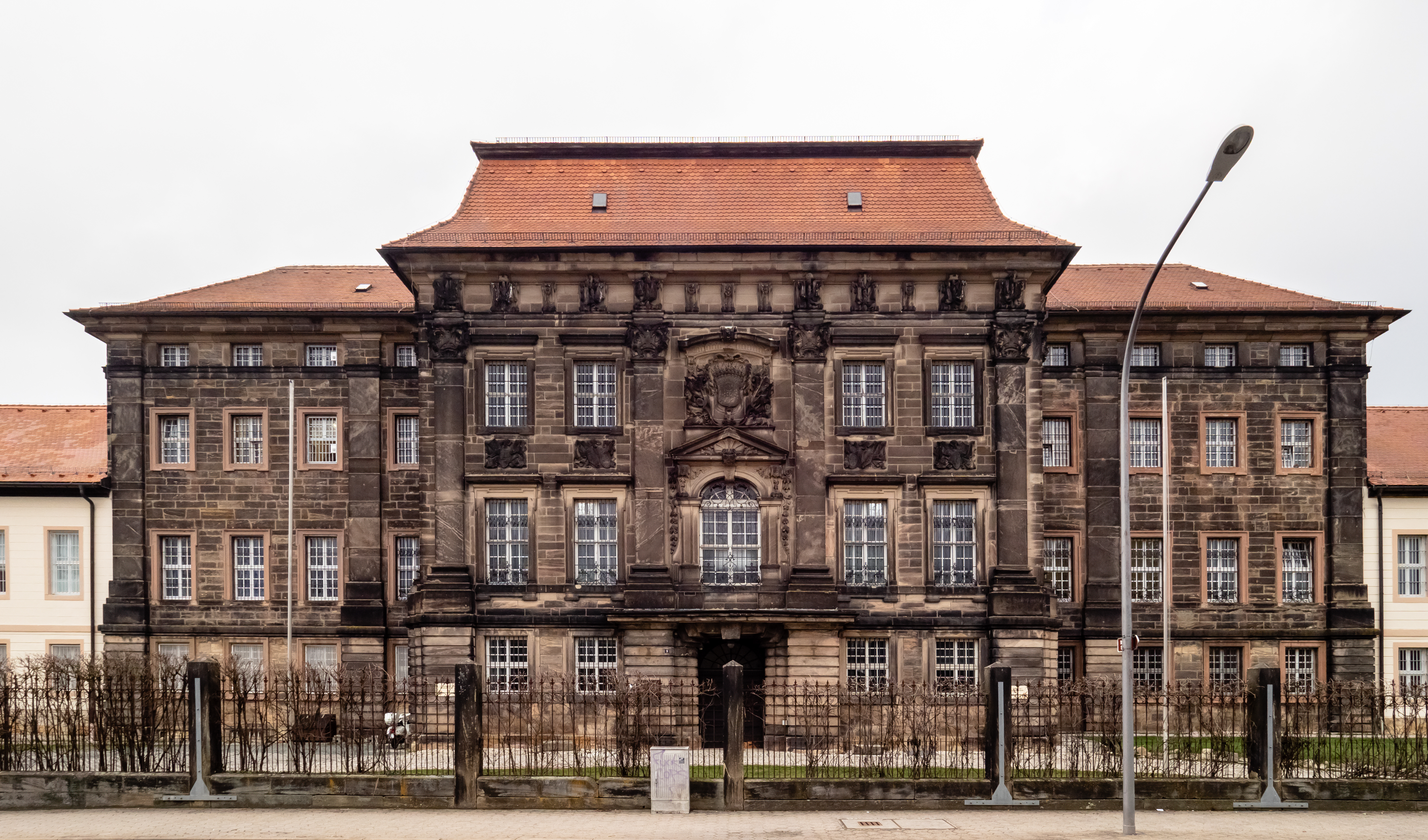 Order castle in Bayreuth St.Georgen.Bayreuth Correctional Facility.